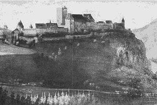 Schloßböckelheim, aquarell from 17th century (Hist. Mus. d. Pfalz, Speyer)